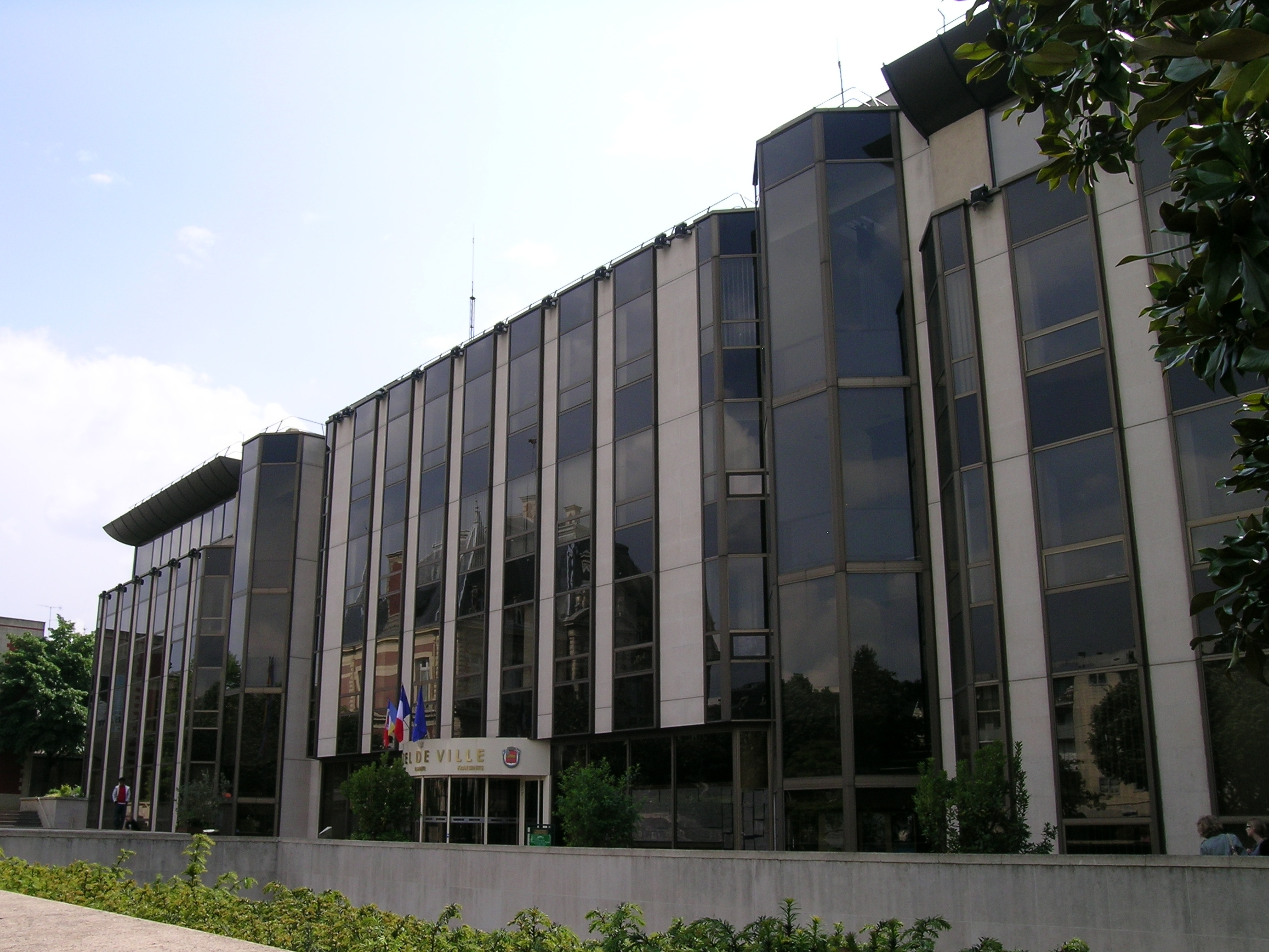 The new town hall of Rueil-Malmaison, Hauts-de-Seine, France.